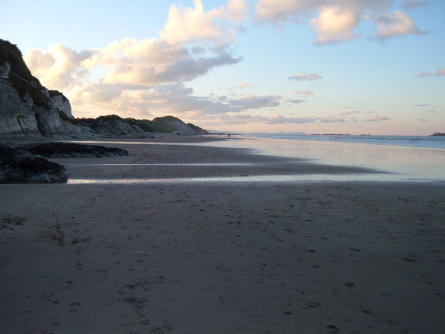 Whiterocks